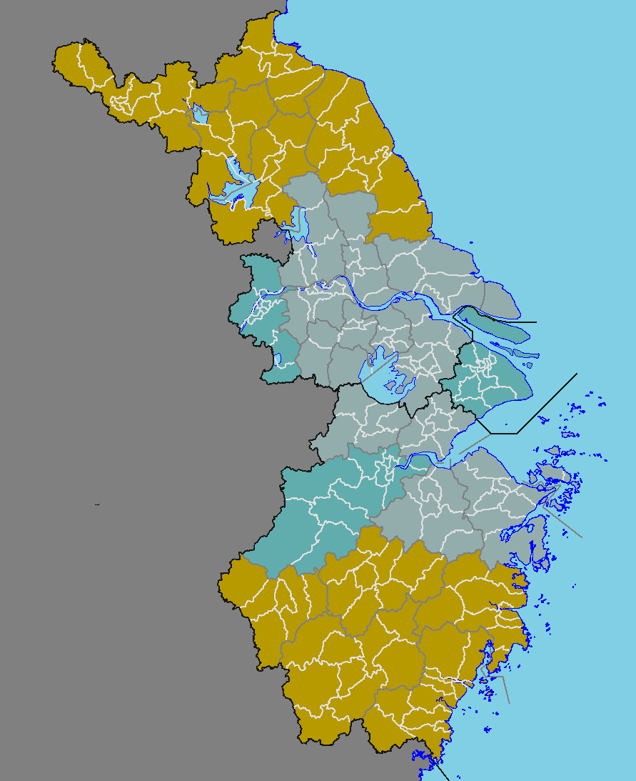 map of the Yangtze River, China 中文（中国大陆）: 长江三角洲地图